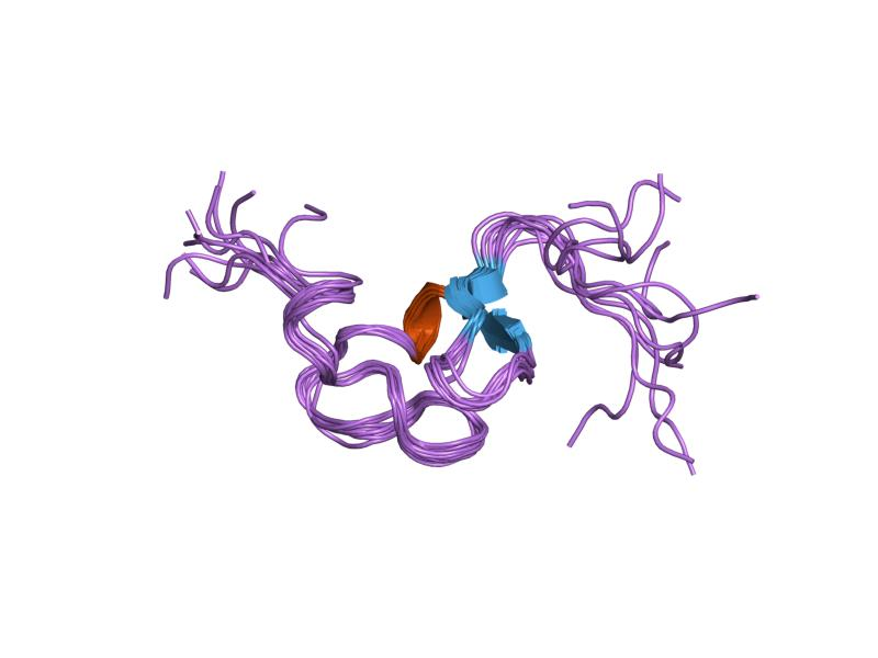 Cartoon representation of the molecular structure of protein registered with 1ldl code.